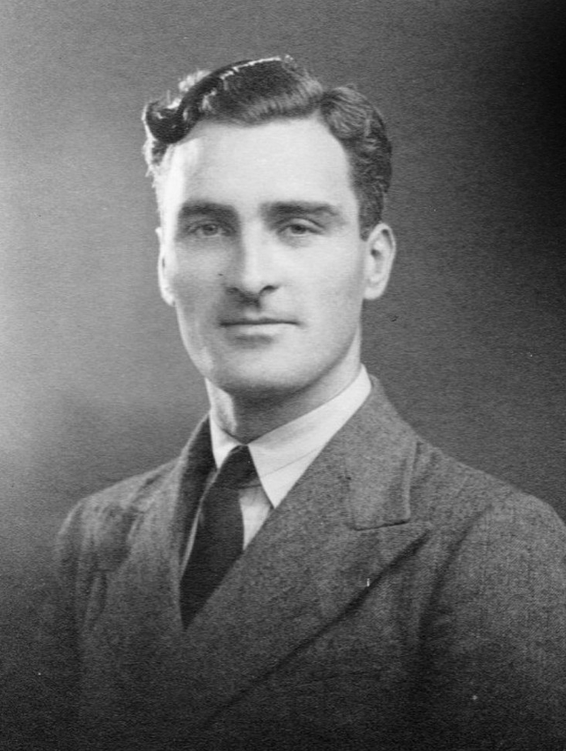 Photograph of Irish Politician Brendan Corish of the Labour Party, taken in 1949.